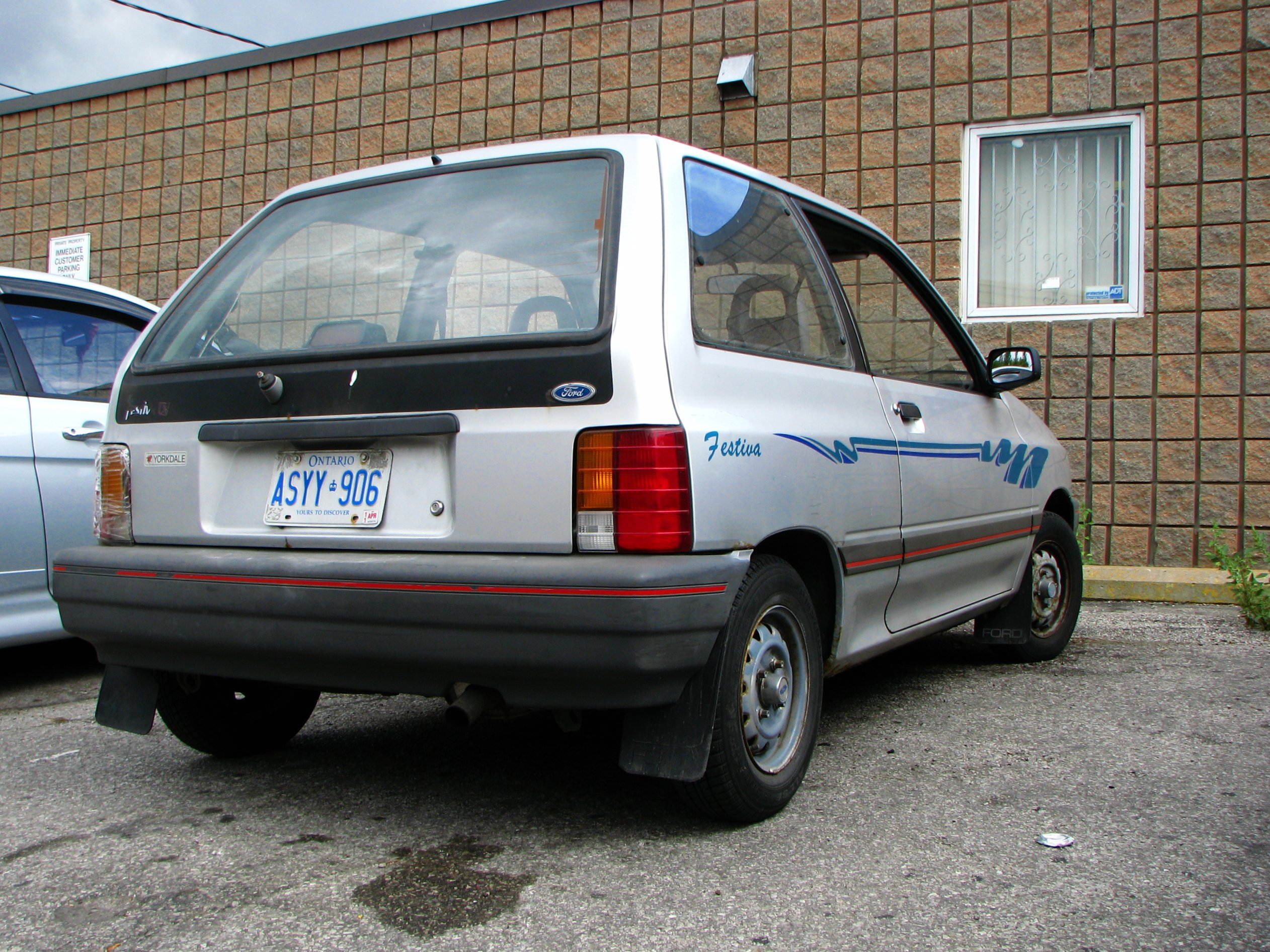 And I thought my car was small! Geeze! Another rare find btw :)! Also known as a Kia Pride